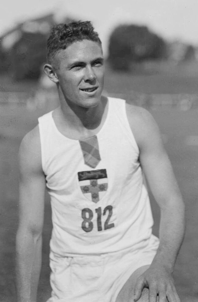 Jack Metcalfe in athletic uniform, New South Wales, ca. 1930s